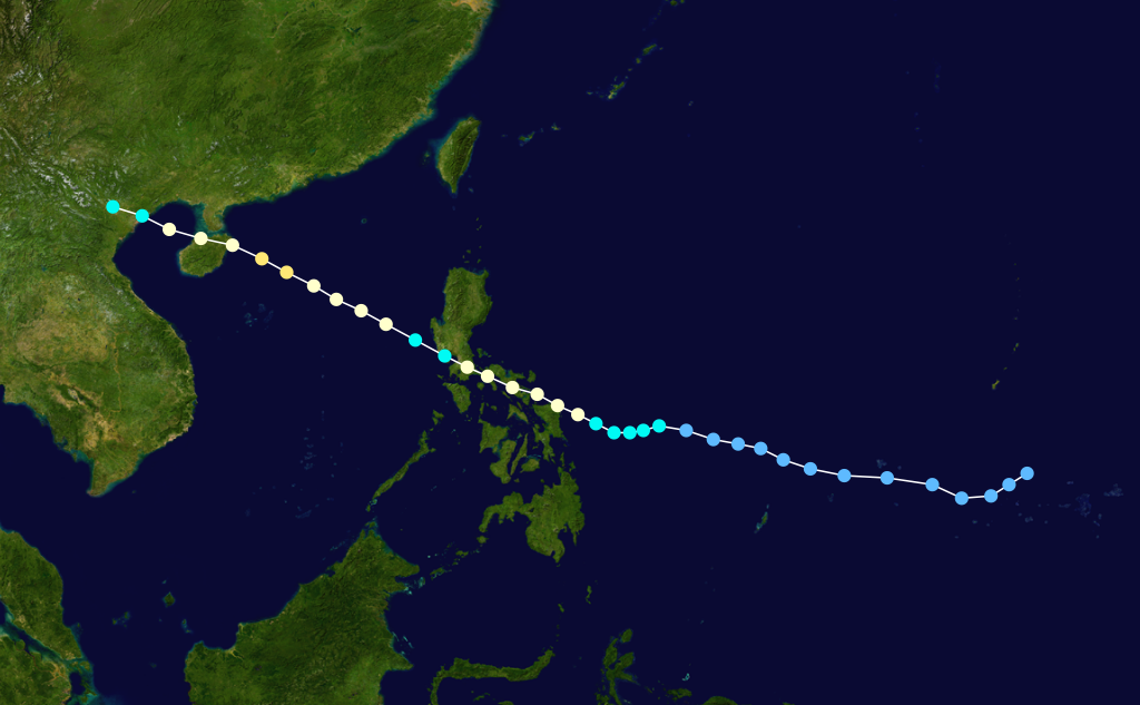 Typhoon Vera 1983 track. Uses the color scheme from the Saffir-Simpson Hurricane Scale.